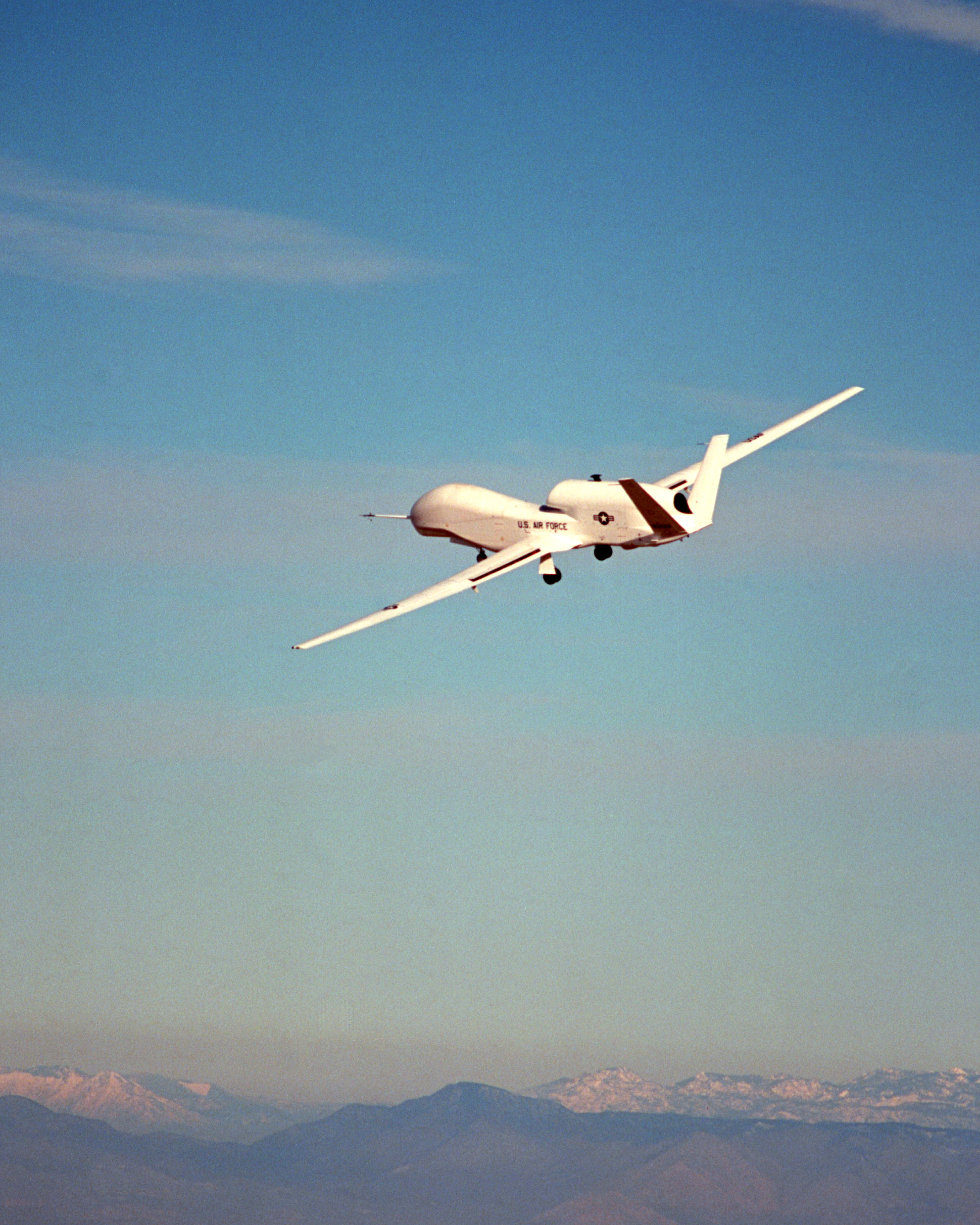 Global Hawk, the Department of Defense's newest reconnaissance aircraft, flies over Edwards Air Force Base, Calif., on Feb. 28, 1998, during its first flight. Global Hawk is a high-altitude, long-endurance, unmanned air vehicle designed to operate with a range of 13,500 nautical miles, at altitudes up to 65,000 feet and with an endurance of 40 hours. During a typical reconnaissance mission, the aircraft can fly 3,000 miles to an area of interest, remain on station for 24 hours, survey an area the size of the state of Illinois (40,000 square nautical miles), and then return 3,000 miles to its operating base. Sensors onboard the aircraft can provide near-real-time imagery of the area of interest to the battlefield commander via world-wide satellite communication links and the system's ground segment. DoD photo.